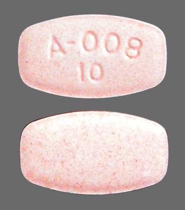 pill containing 10 miligrams of Aripiprazole